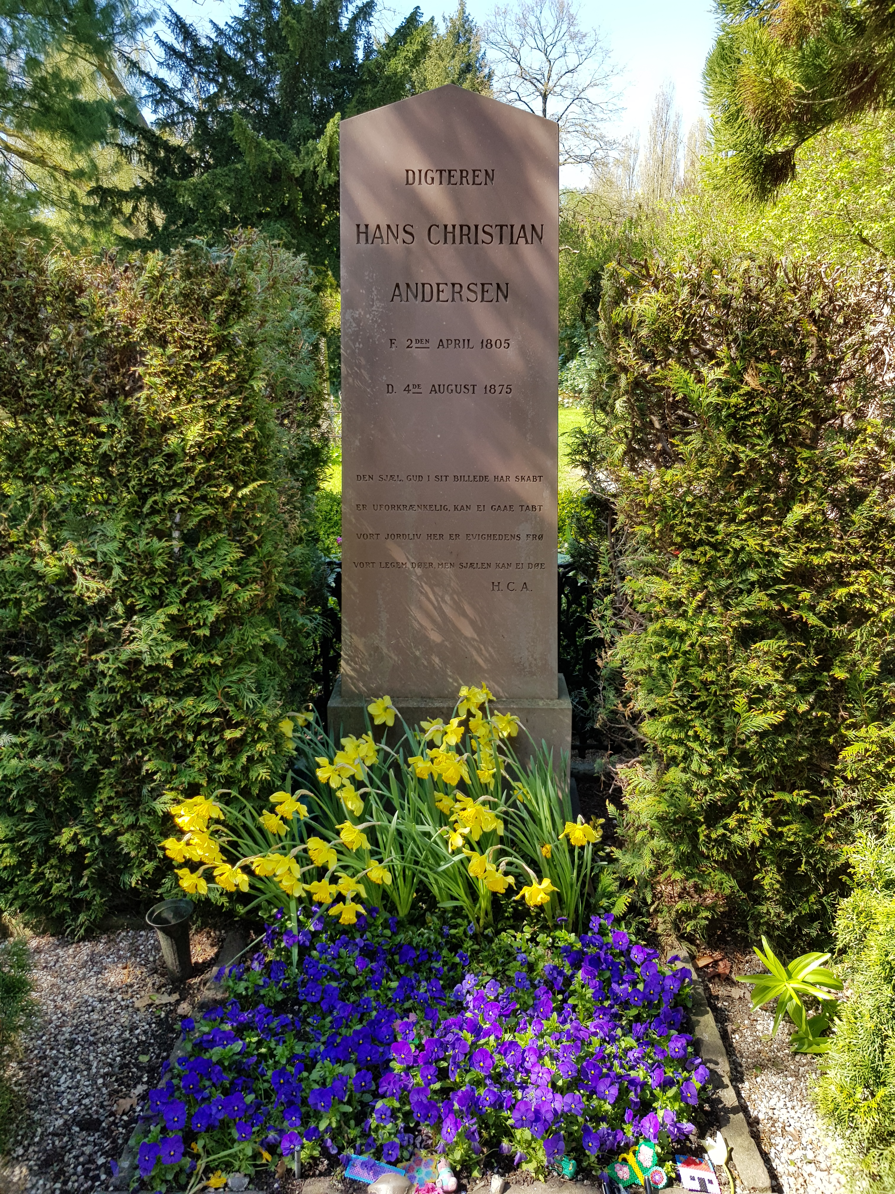 Tomb of Hans Christian Andersen at Assistens Cemetery in Copenhagen.